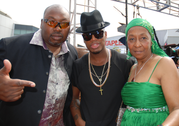 Photo of the Blak Prophetz for